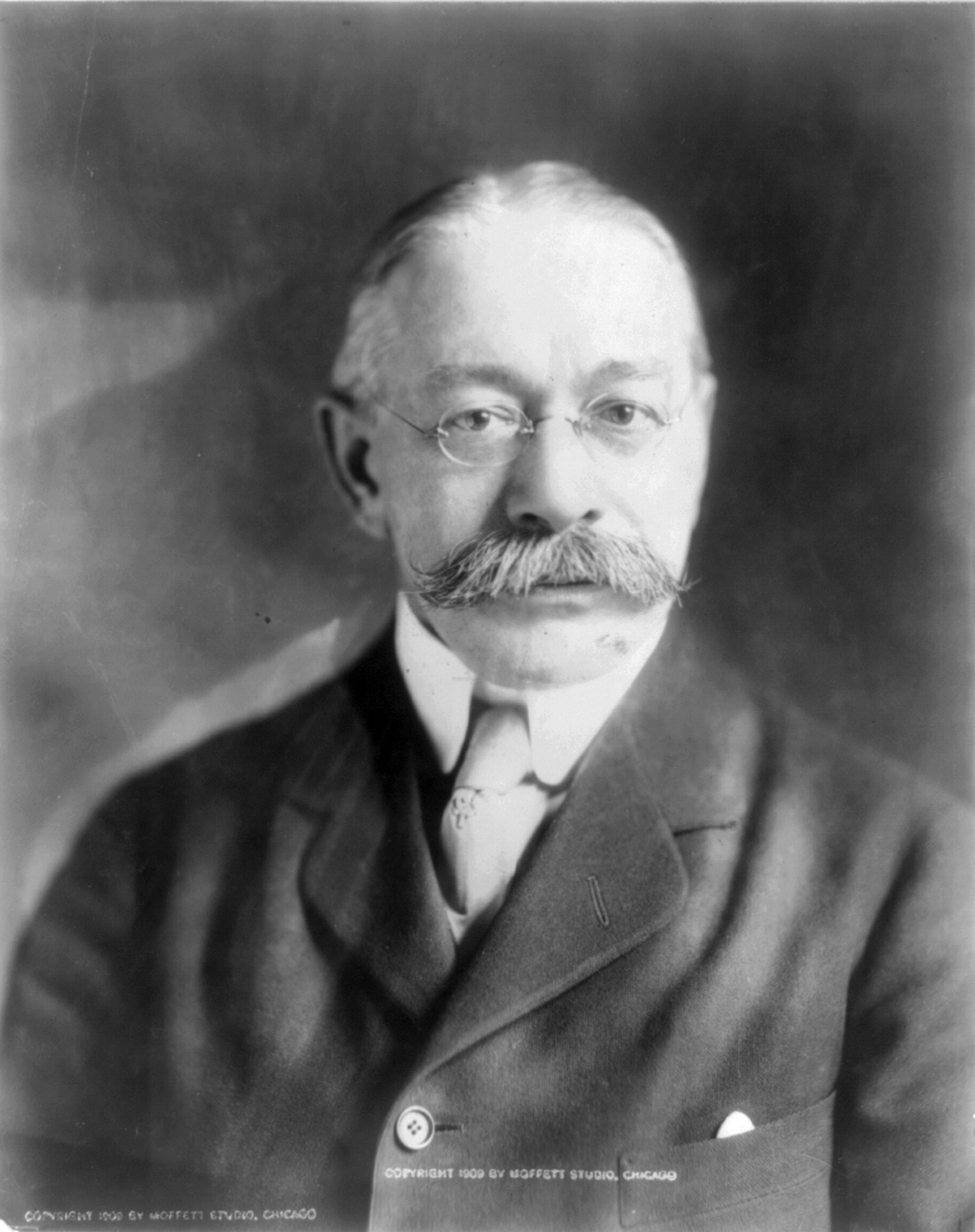 United States Attorney General George W. Wickersham.